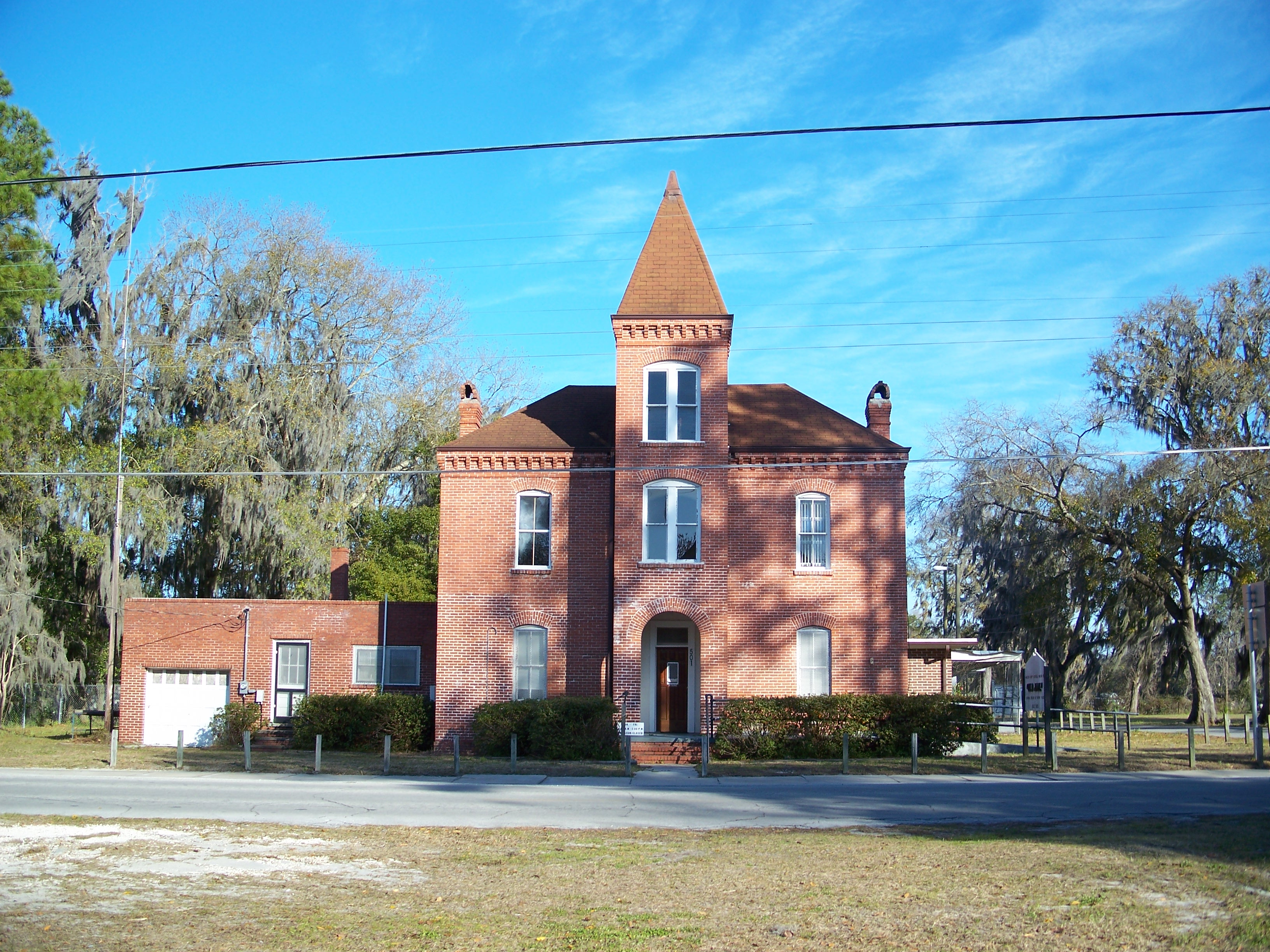 Old Hamilton County Jail, Jasper, Florida